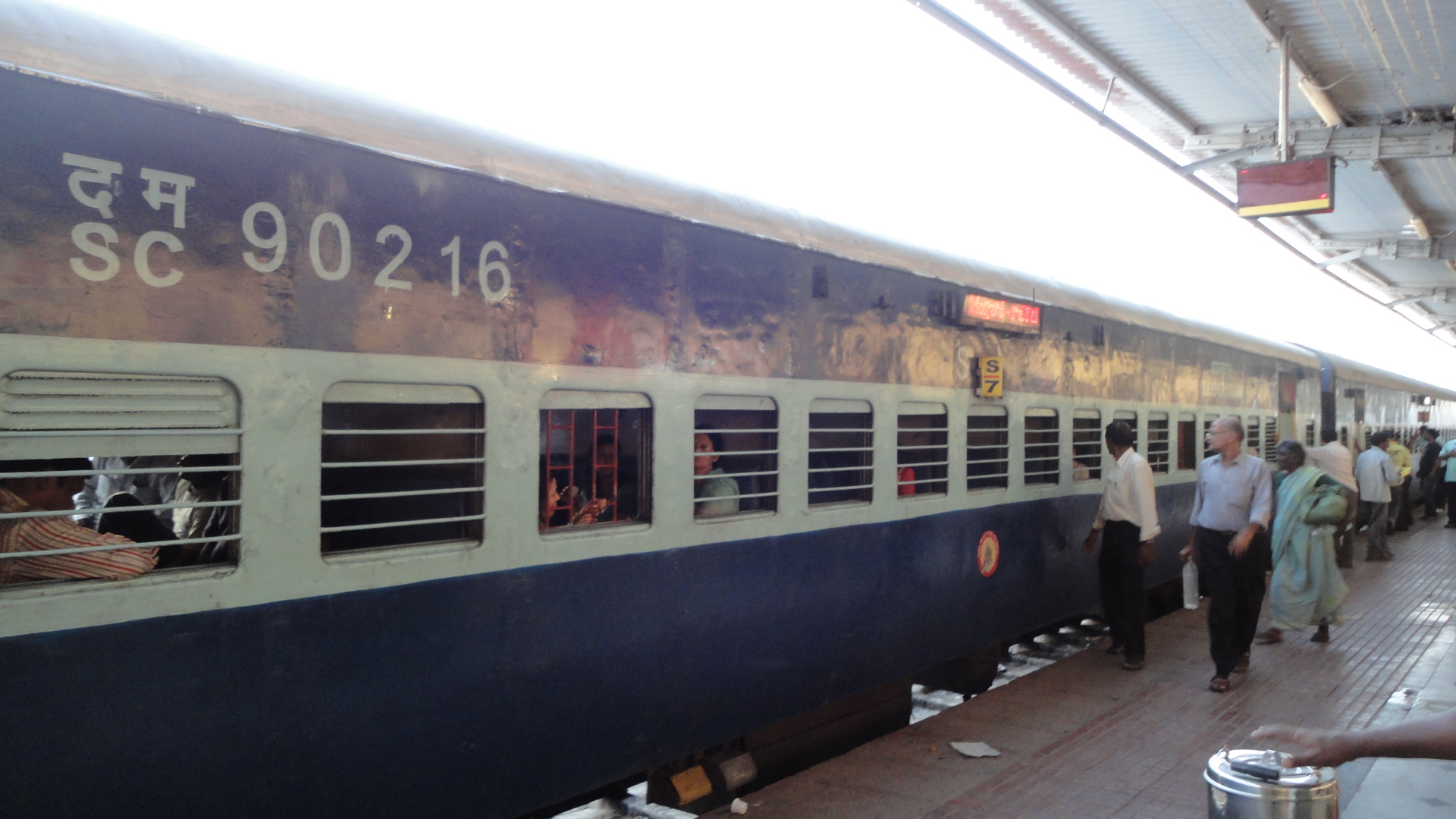 Rajkot Express (7018) at Wadi railway station, Wadi, Karnataka.